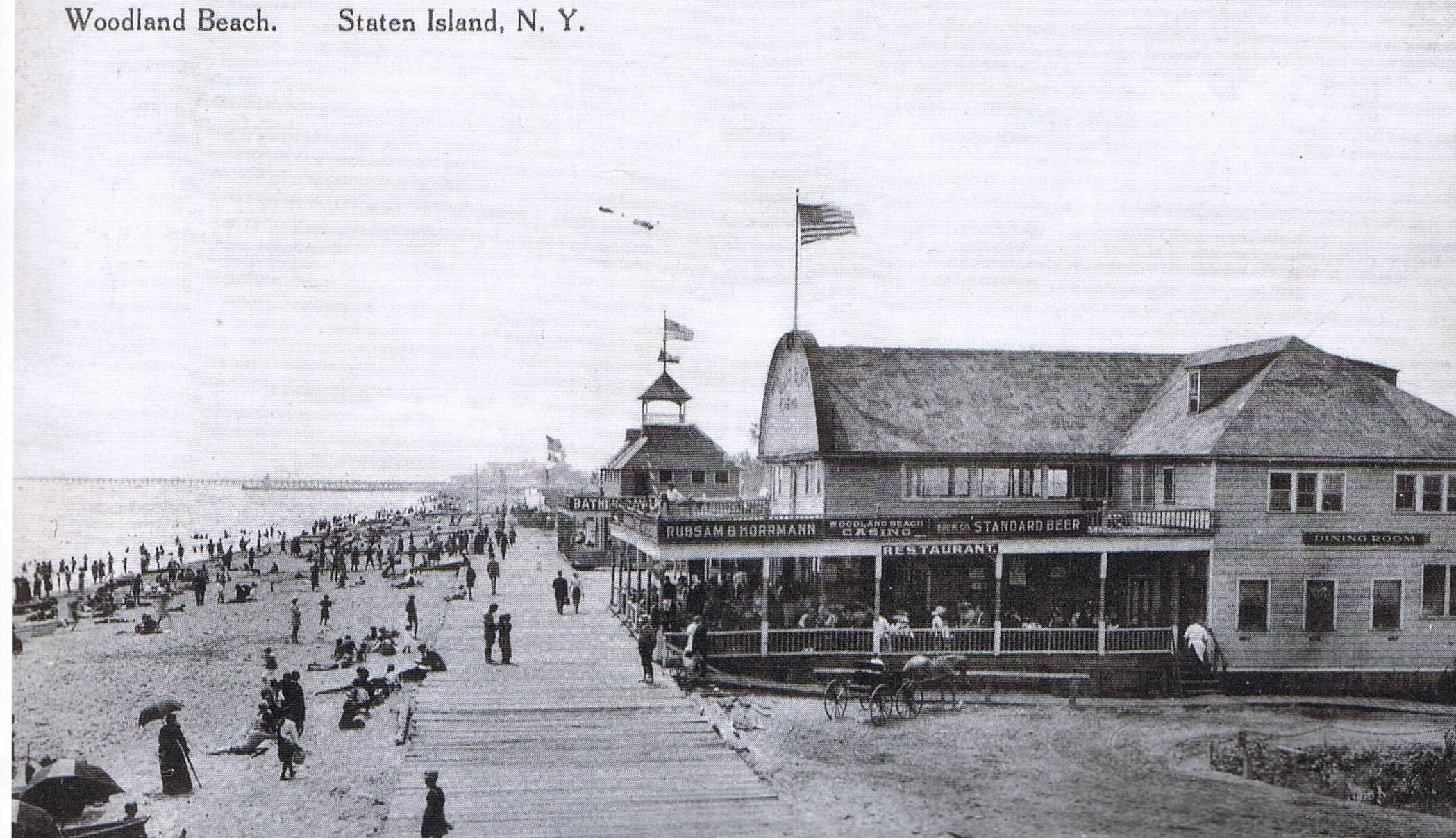 Woodland Beach Resort (Midland Beach) Staten Island, NY 1910